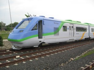 Sriwijaya University